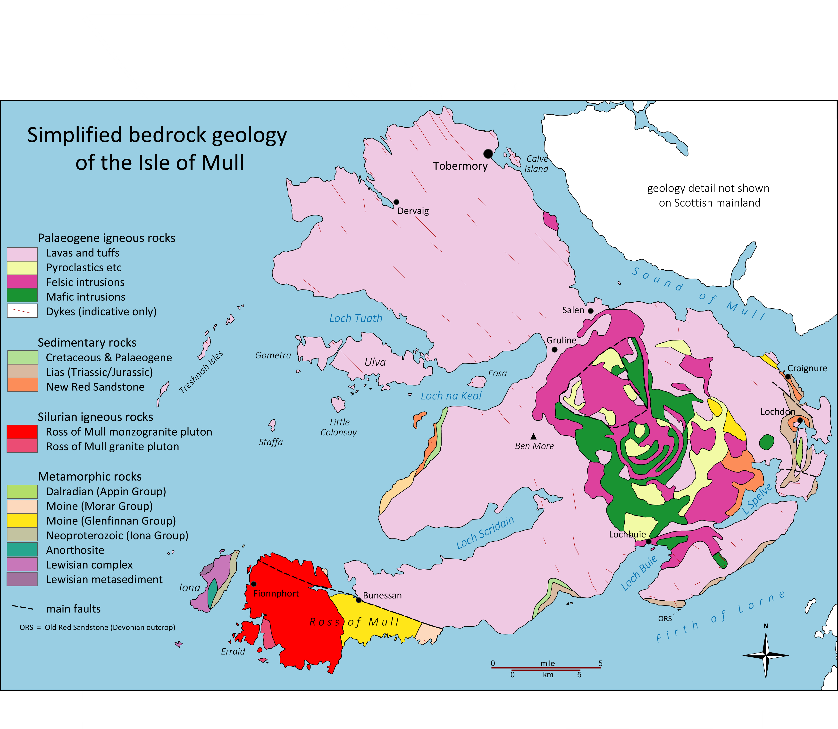 The bedrock geology of the Isle of Mull, Scotland redrawn after BGS maps here